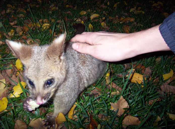 A brushtail possum being stroked in the Treasury gardens.